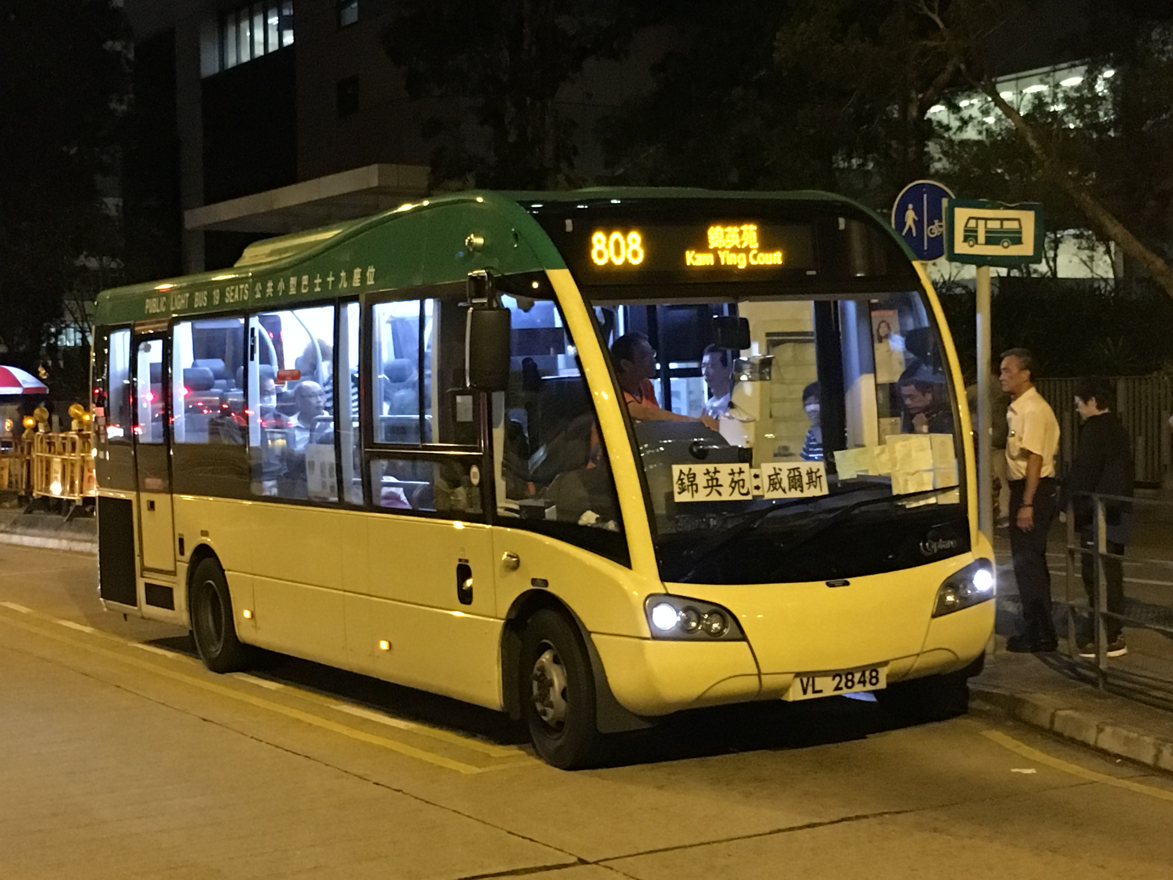 中文（香港）: This photo is taken in Yuen Chau Kok.